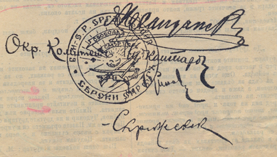 A letter for decoration - IMRO.